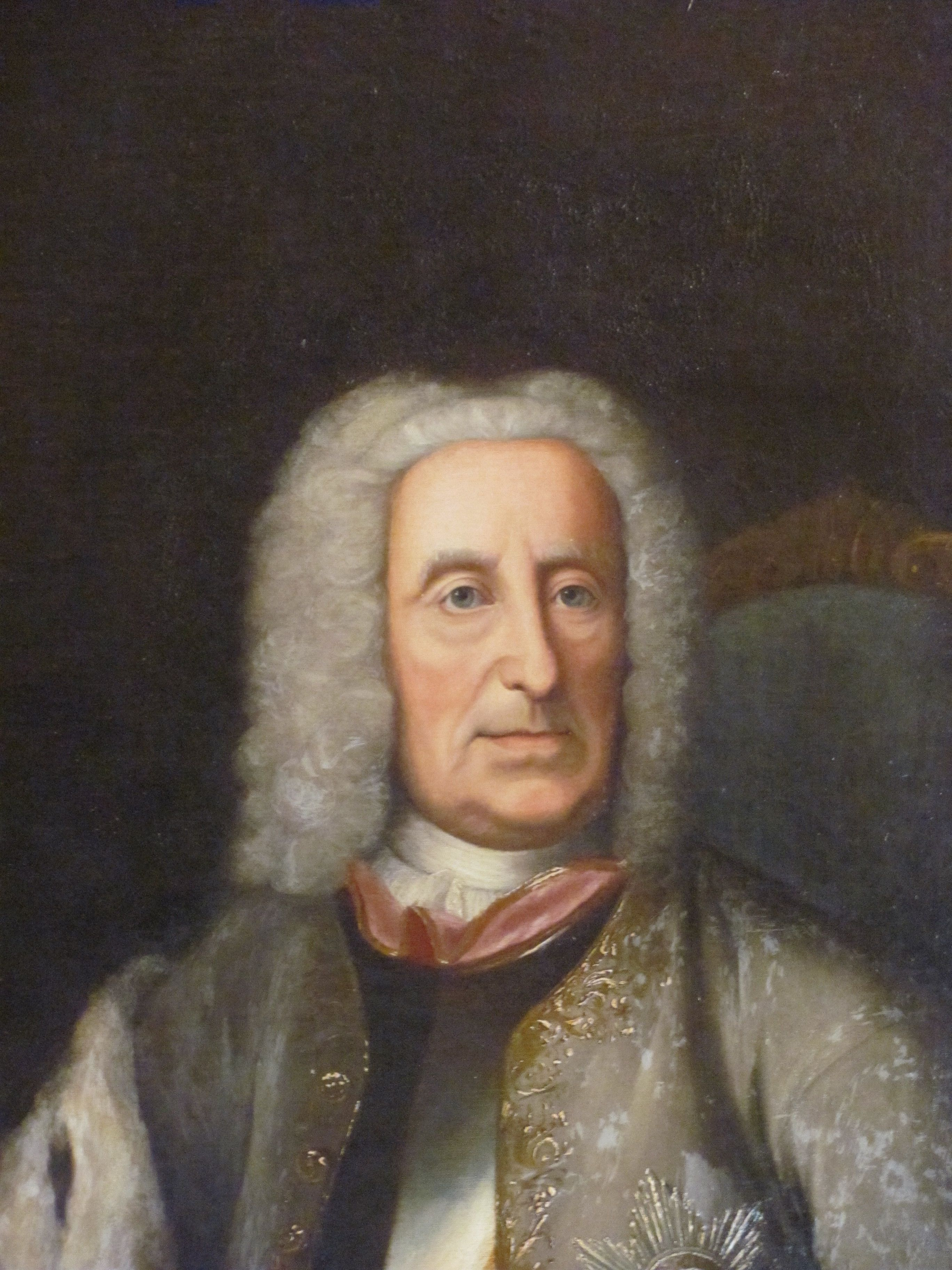 Count Johann Reinhard III von Hanau - Historisches Museum Hanau